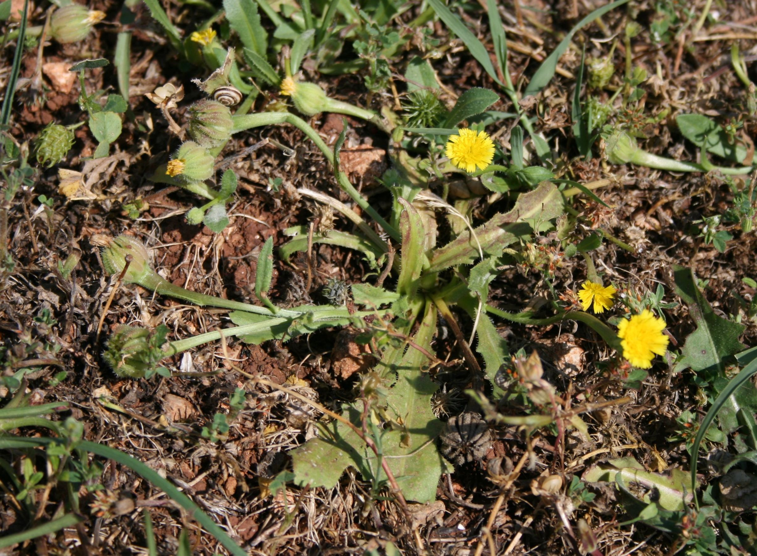 Hedypnois rhagadioloides (= Hedypnois cretica), Korbblütler (Asteraceae) - Italien/Italia/Italy: Apulien/Puglia, Prov. Foggia, südöstlich unter Rignano Garganico